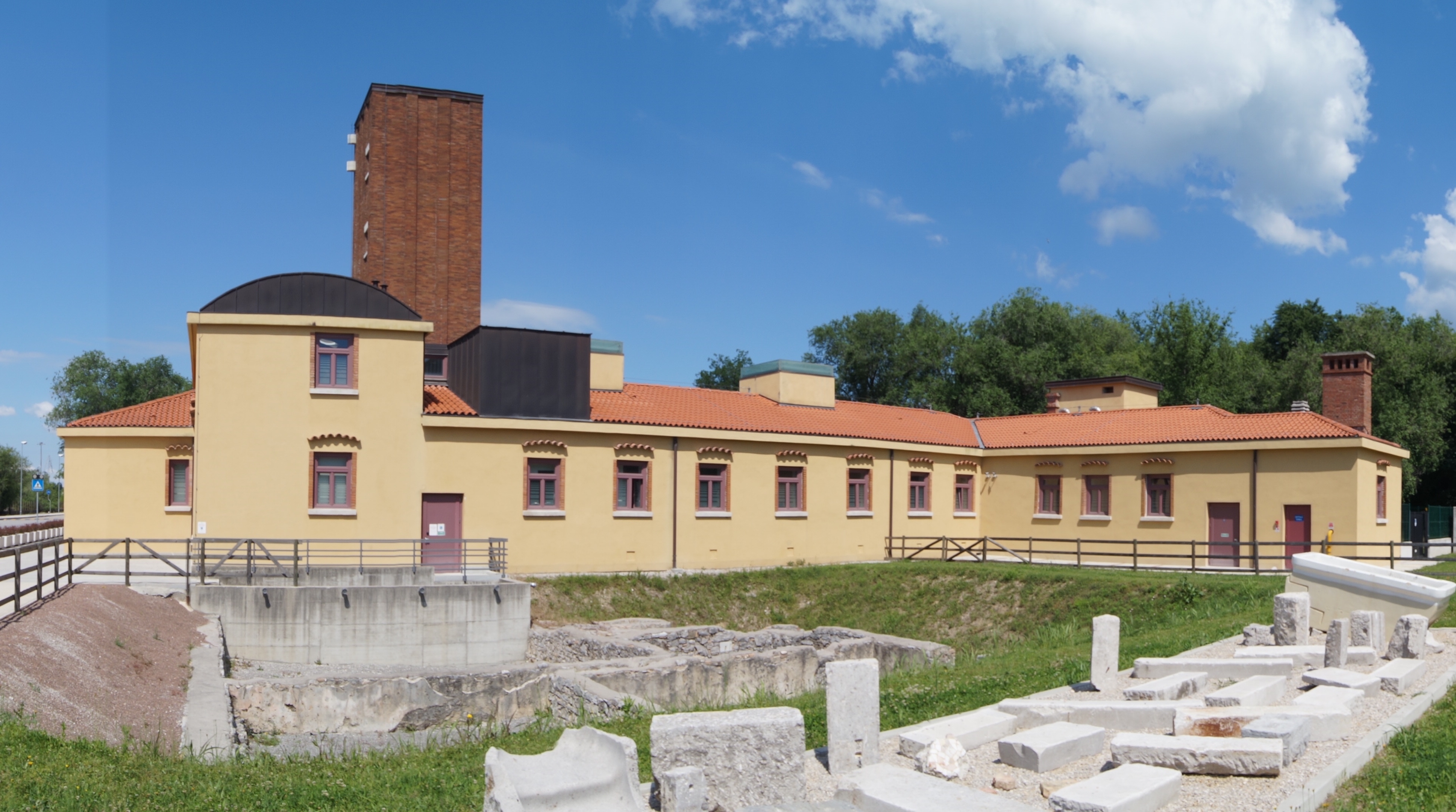 Roman Spa of Monfalcone